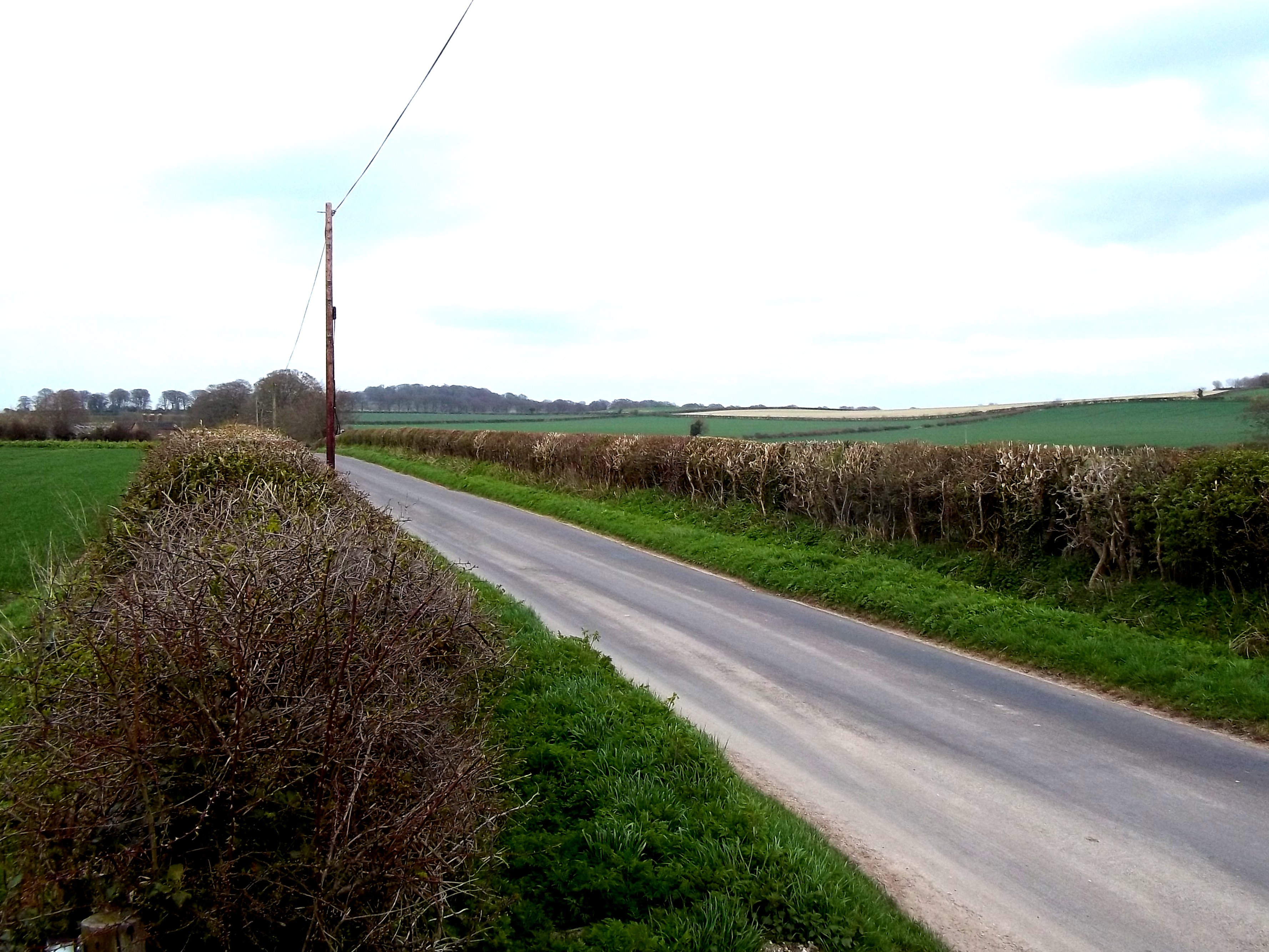 Site of Vindocladia, an ancient Roman town in Dorset, England. View looking northeast towards the Iron Age hillfort of Badbury Rings.